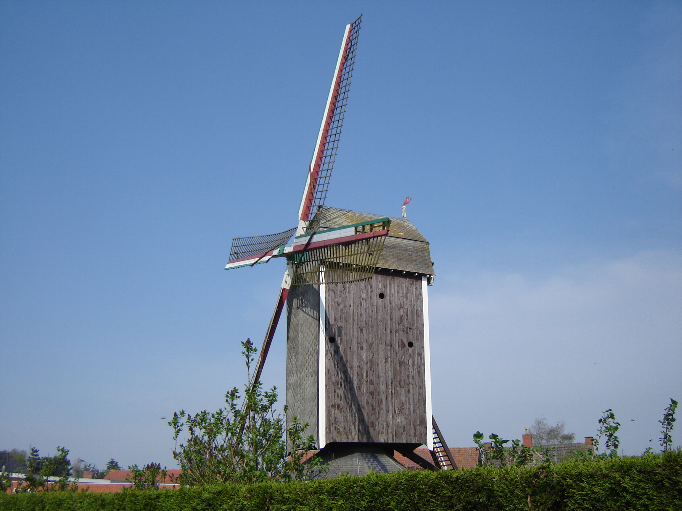 Kruisstraatmolen windmill in Werken (neighbourhood Kruisstraat). Werken, Kortemark, West-Flanders, Belgium